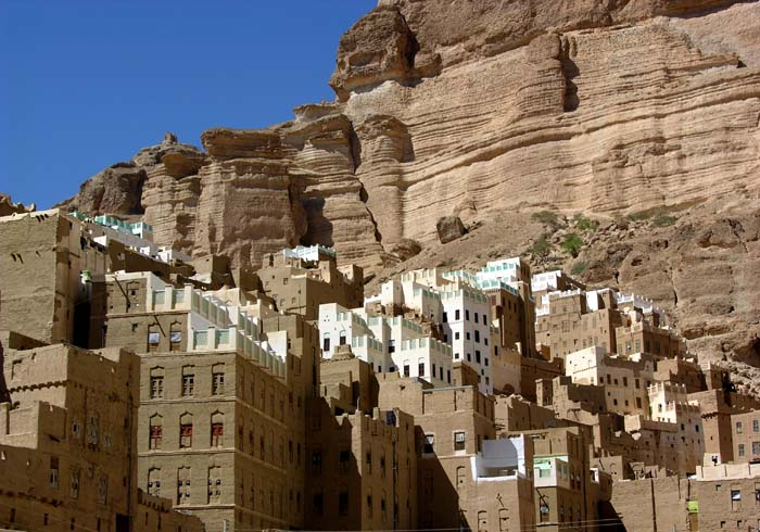 Wadi Dawan, Al Kuraibah, Hadramaut, Yemen